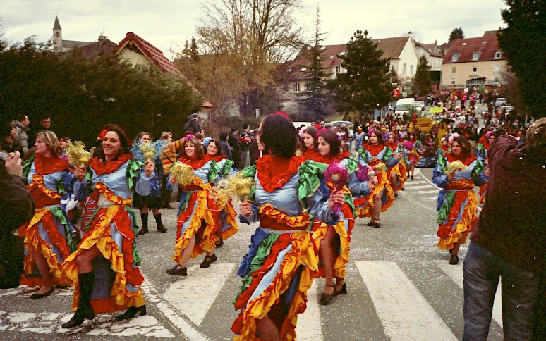 Personality rights warningAlthough this work is freely licensed or in the public domain, the person(s) shown may have rights that legally restrict certain re-uses unless those depicted consent to such uses. In these cases, a model release or other evidence of consent could protect you from infringement claims.